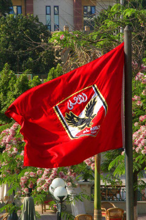 Al Ahly S.C. flag